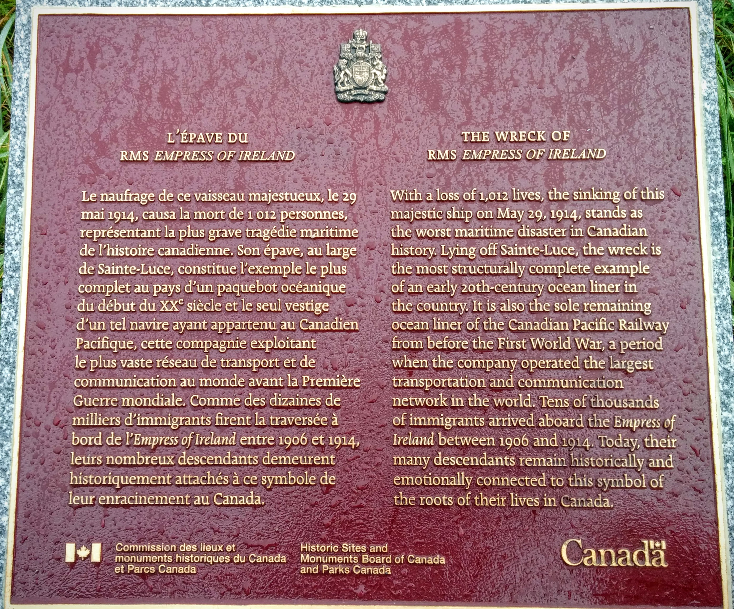 The wreck of RMS EMPRESS OF IRELAND Historic Sites and Monuments Board of Canada Commemorative Plaque